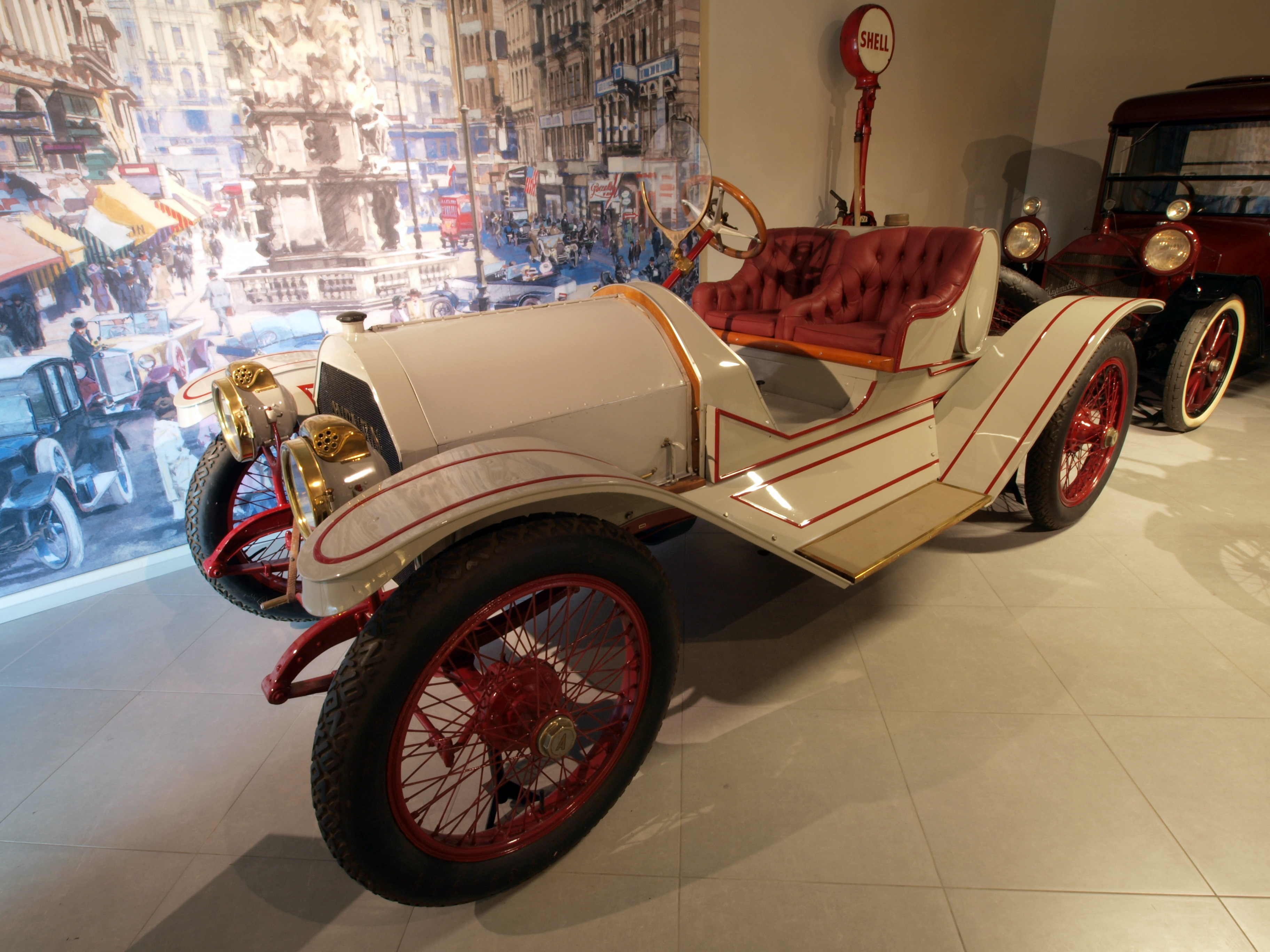 Photographed at the Louwman museum, The Netherlands.